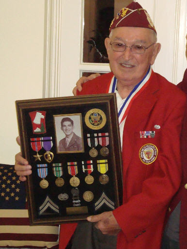 2 former World War II POWs return to the Pasadena hospital where they recovered 65 years ago. Tony Acevedo and Marty Schlocker